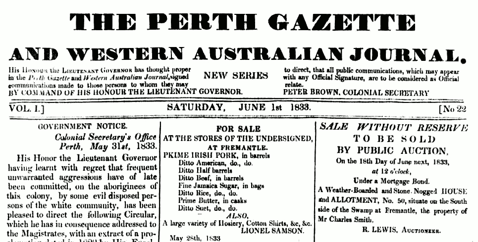 Masthead from the Perth Gazette and Western Australian Journal, Vol. 1, No. 22, Pg. 1